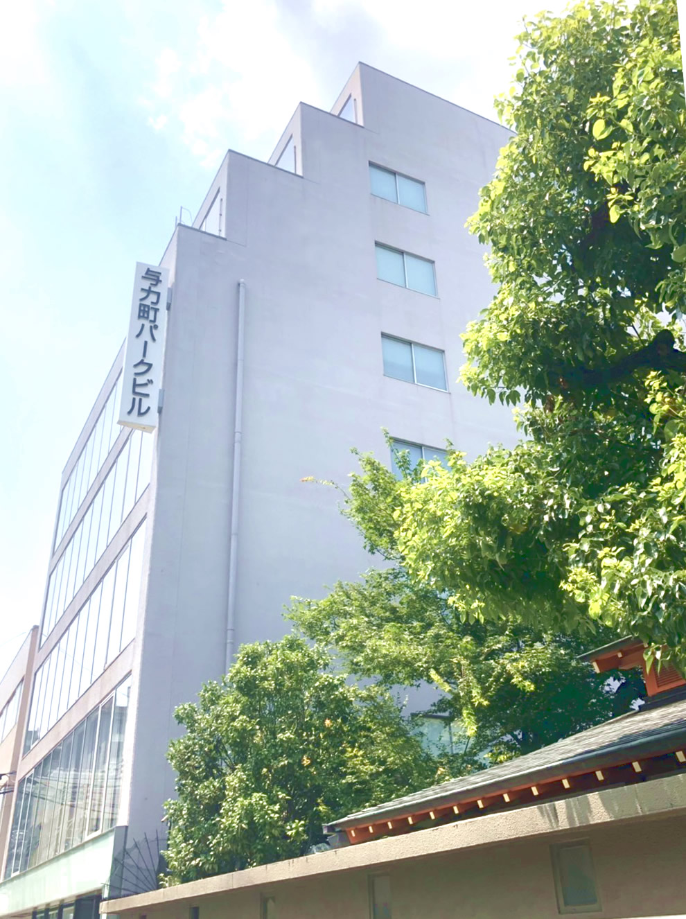 company building